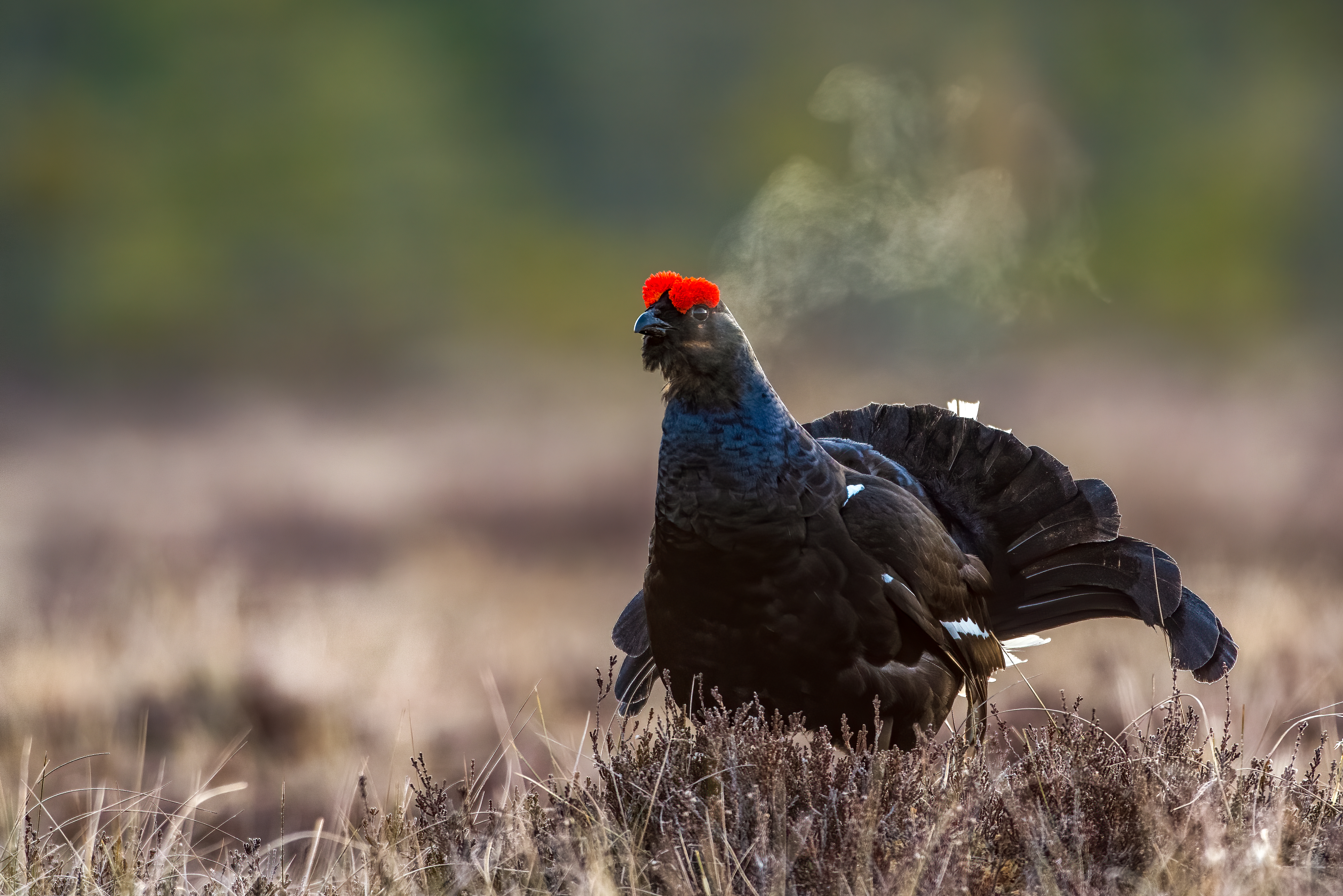 A blackcock, the male glack grouse, is beginning its lekking early in the morning, from Rankemossen natural reserve in Laxå municipality.